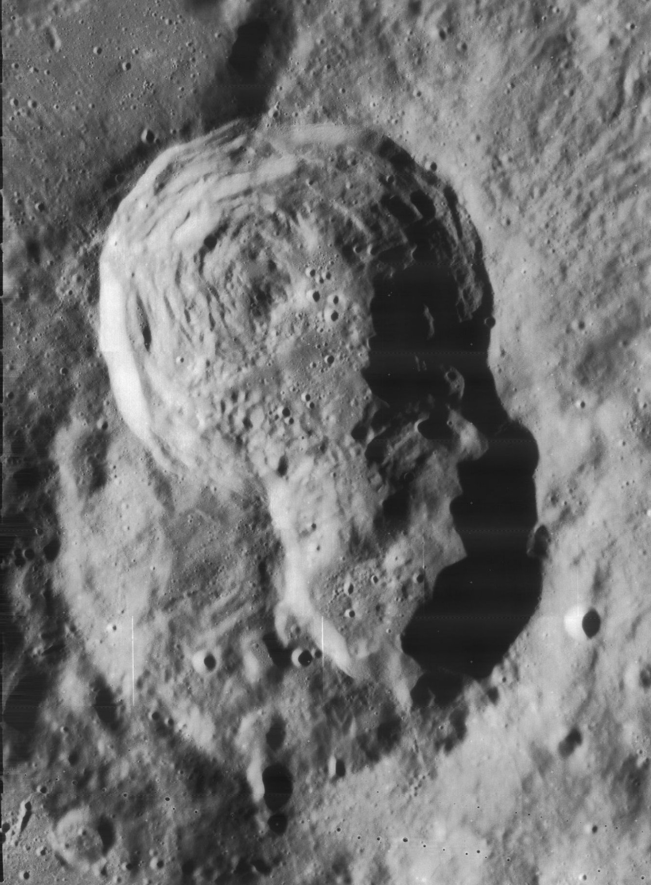 Hainzel (bottom), Hainzel C (below right of center), Hainzel A (above center), on the moon. North is to upper right.